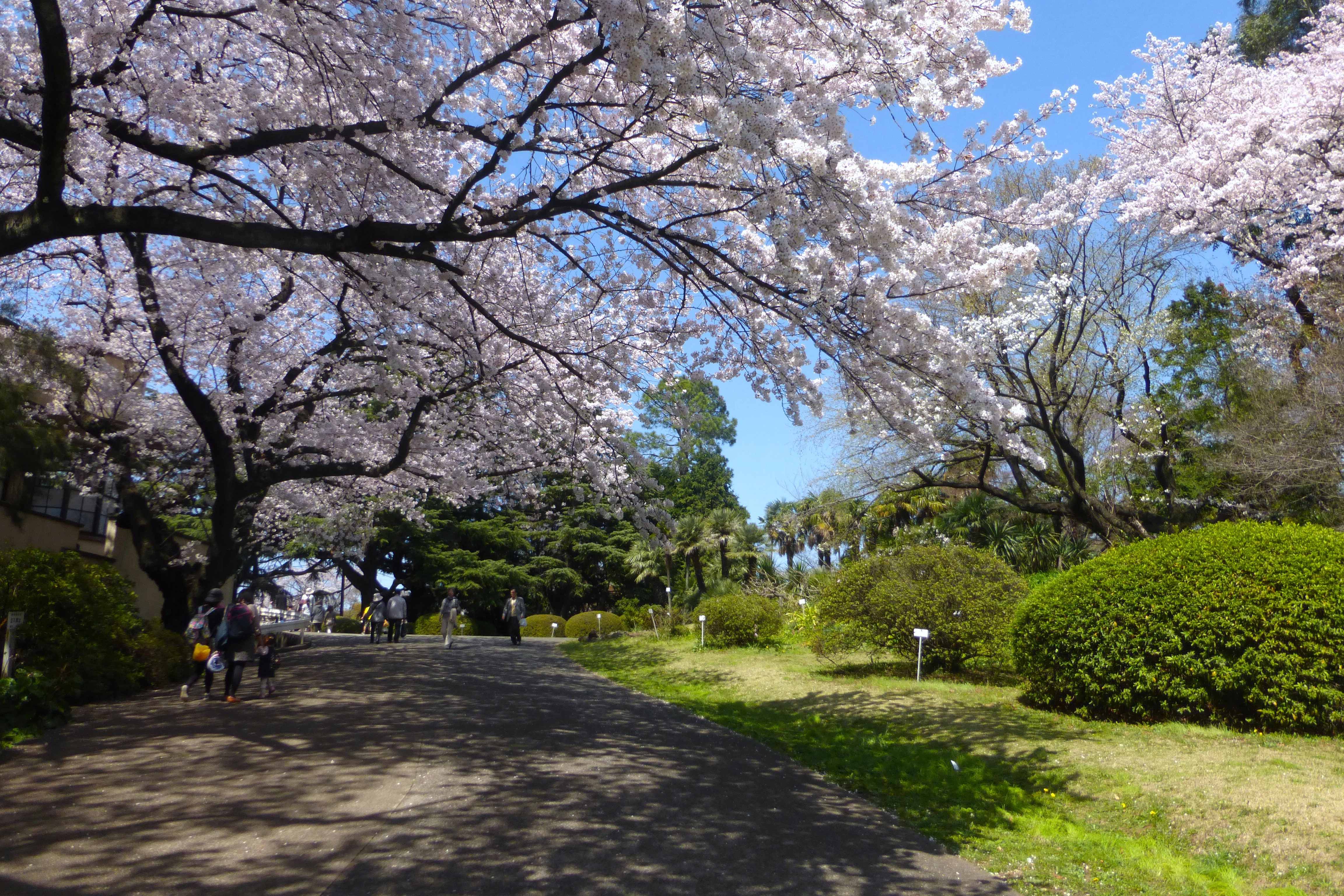 Koishikawa Botanical Gardens cherry blossoms (小石川植物園の桜)